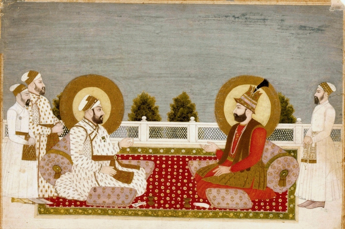 Mughal Emperor Muhammad Shah and King of Iran Nadir Shah. 1740, Musee Guimet, Paris